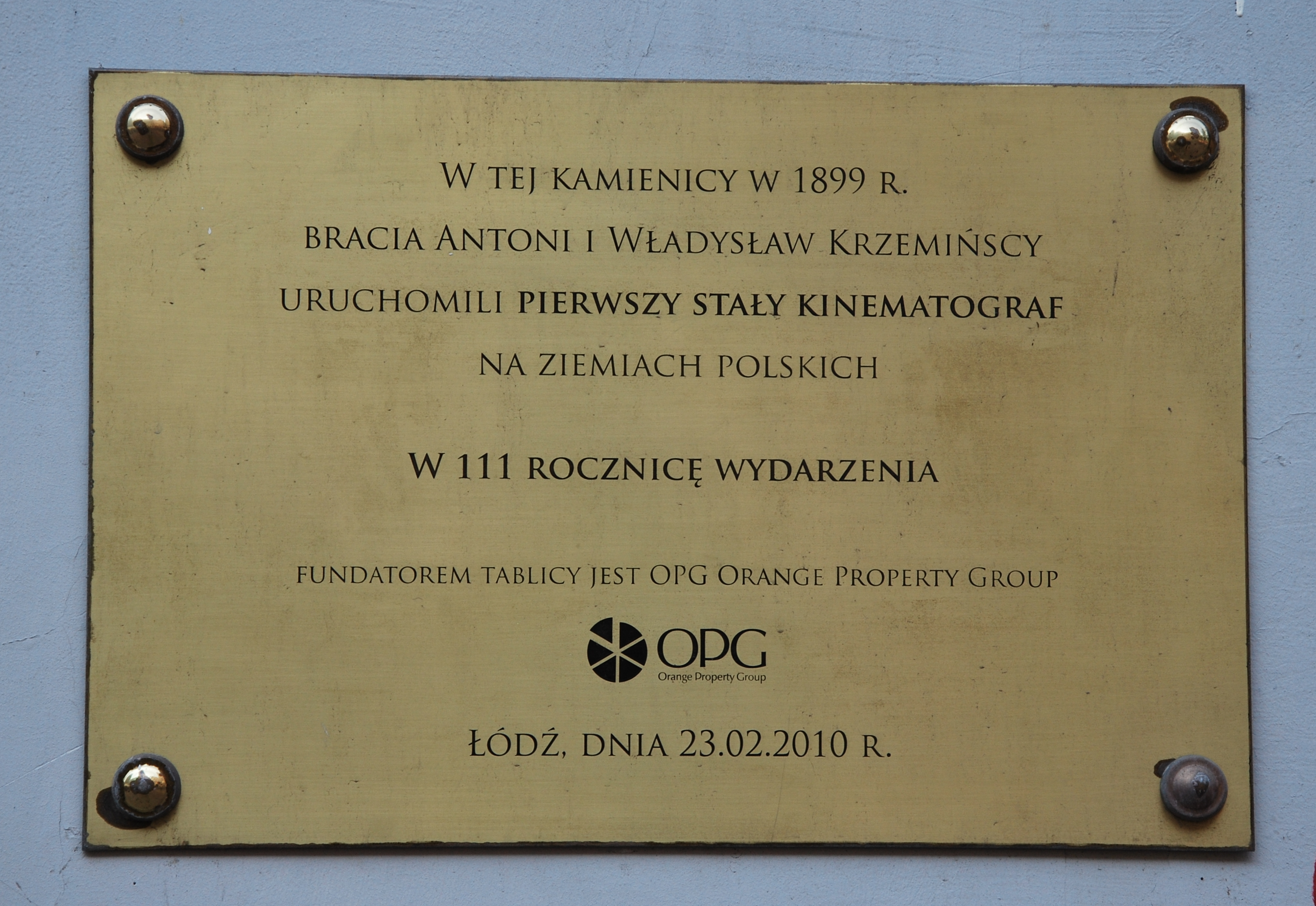 Plaque in memory of first stationary cinematograph in polish teritory, Łódź Piotrkowska Street 120